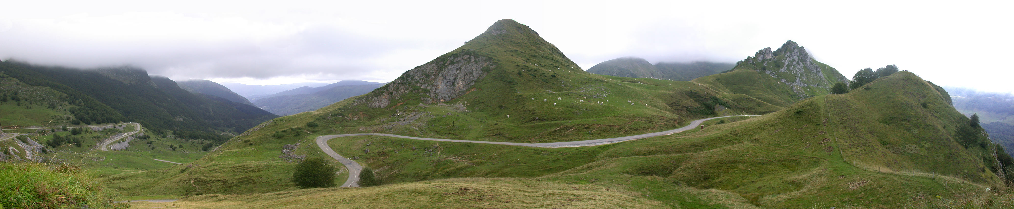 Col d'Agnès, mountain pass in the Pyrenees. Altitude: 1570 meters. September 2008.